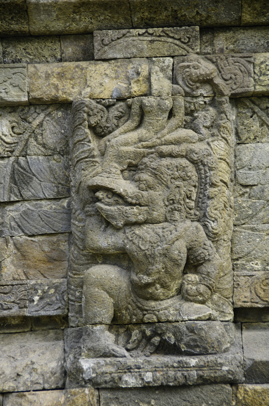 The statue of Wishnu riding Garuda, Candi Kidal, Tumpang, Malang, Jawa Timur